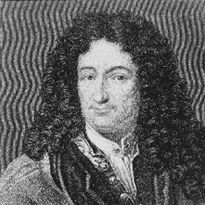 Michel Rolle (1652-1719) portrait. Author unknown.